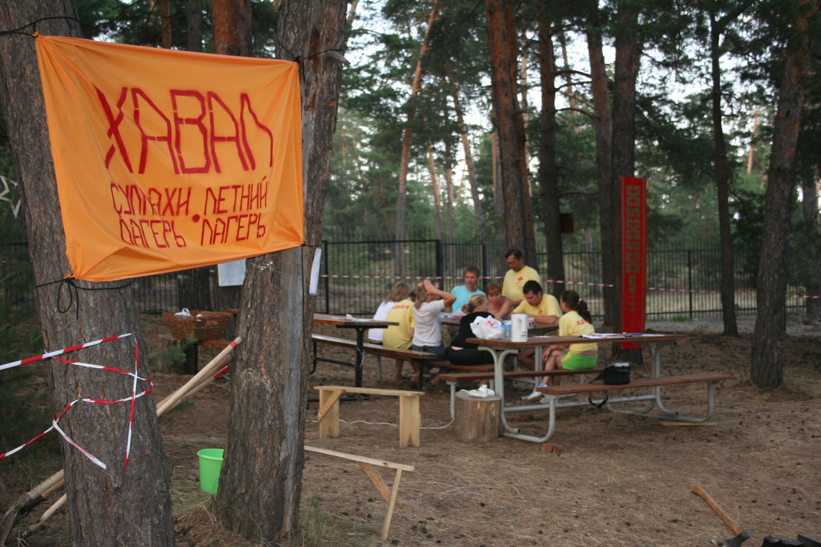 "Haval" summer camp Чӑвашла: Ҫуллахи «Хавал» лагерь